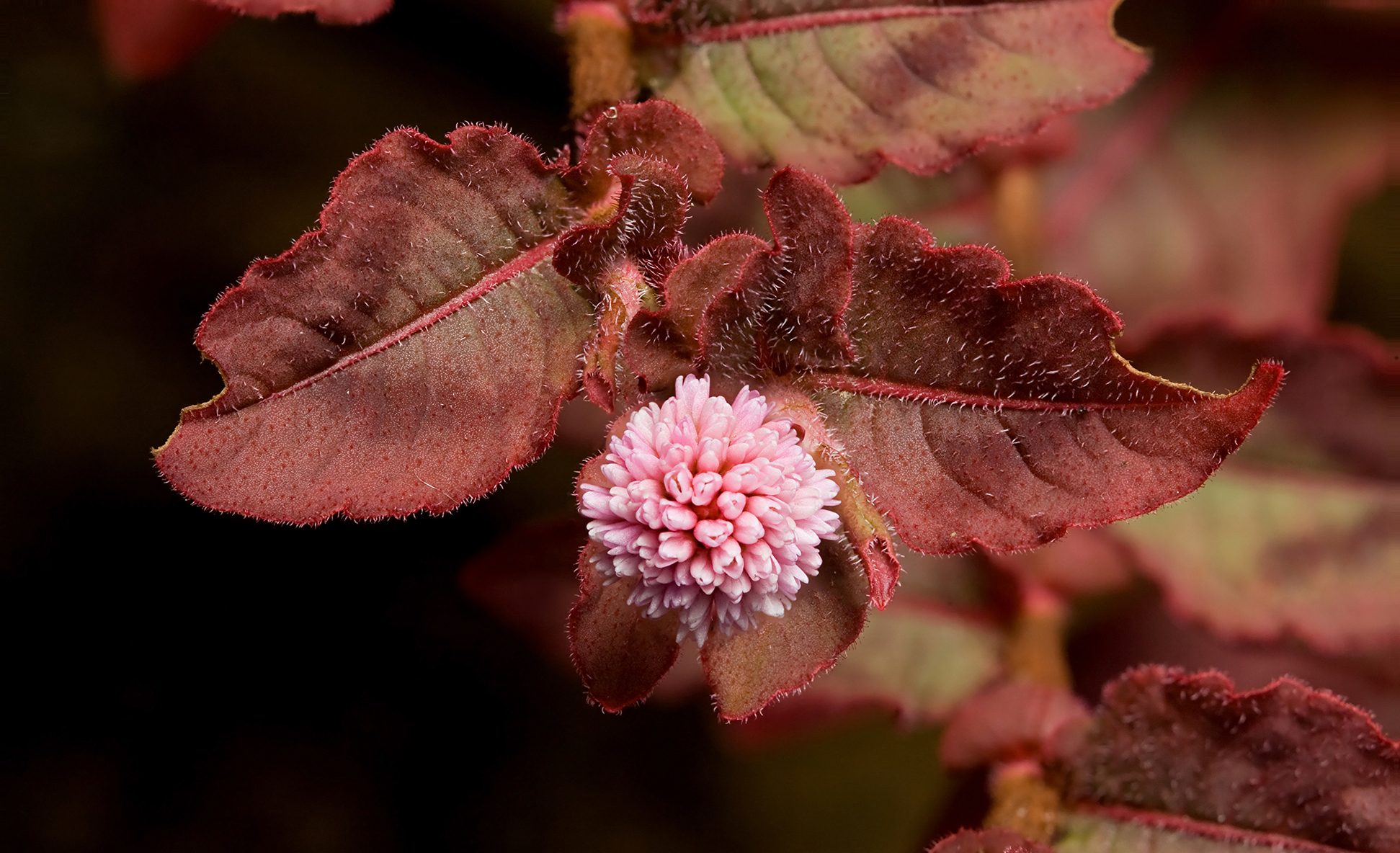 Persicaria capitata, Austin's Ferry, Tasmania, Australia